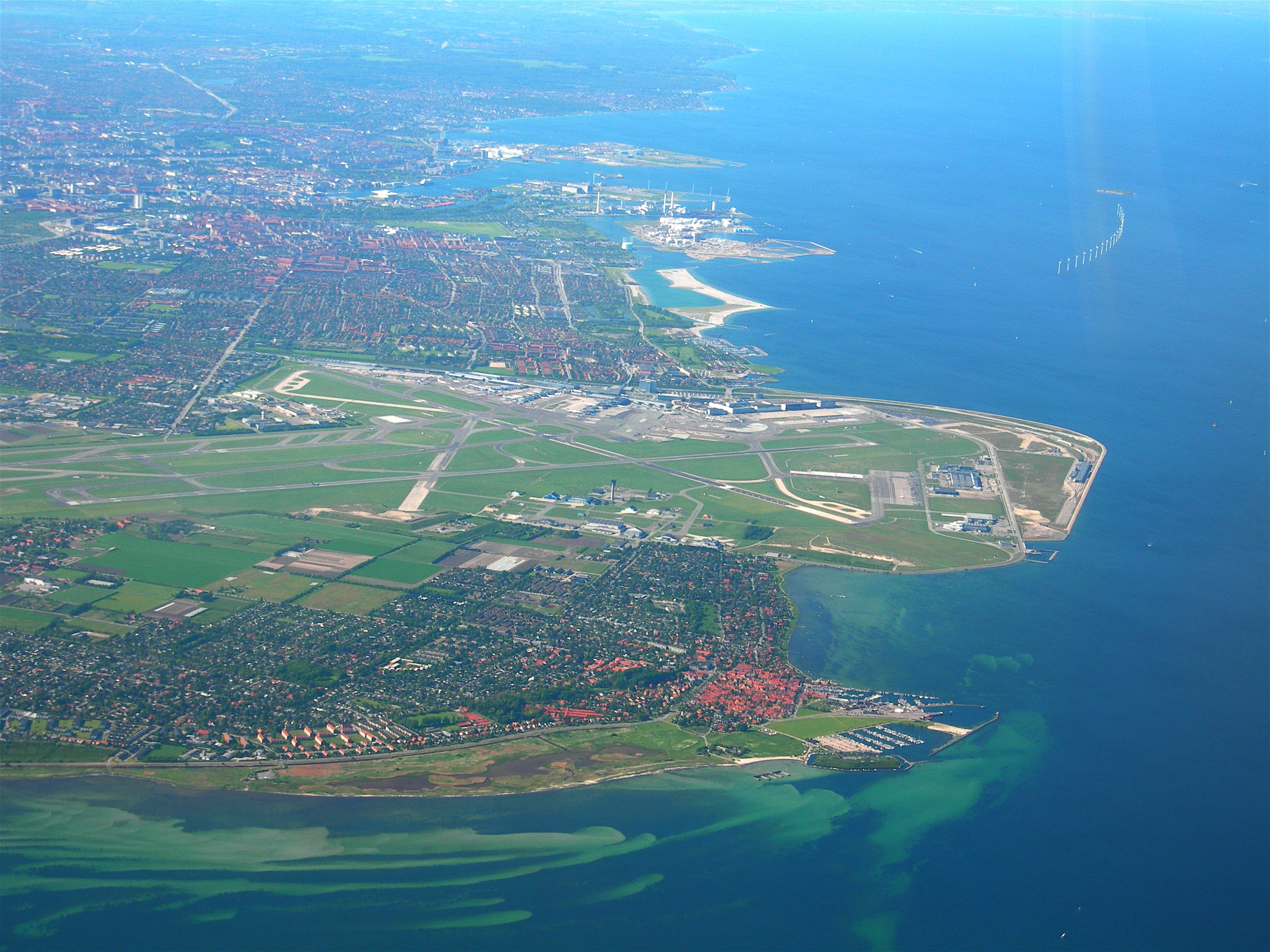 Copenhagen Airport in the middle. South of it the town of Dragør with a core of charming old houses. North if the airport, Copenhagen itself with its large port. East of the city, a row of windmills at sea.